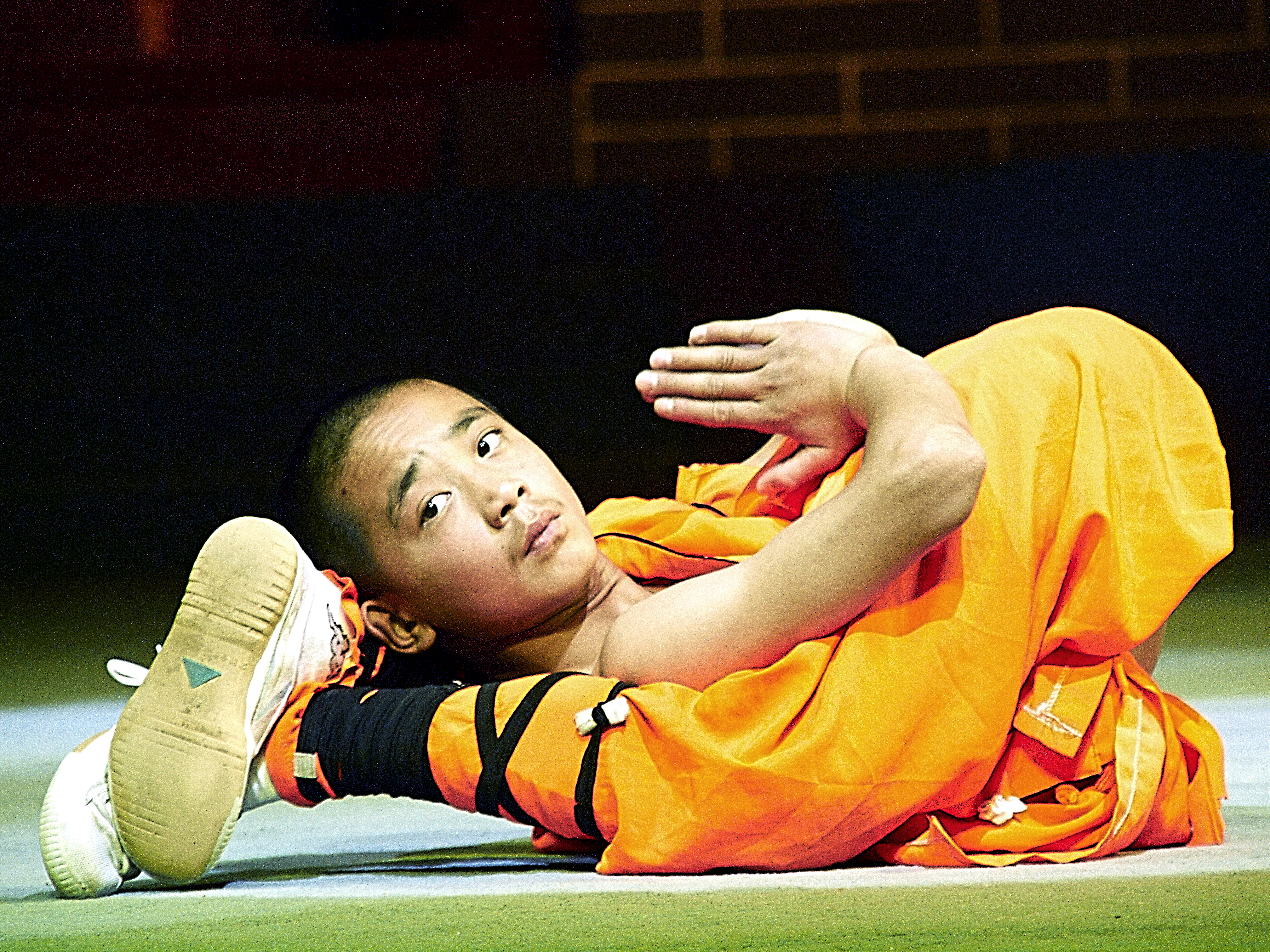 Students of Shaolin Kung Fu school perform renowned shaolin kungfu (martial art).